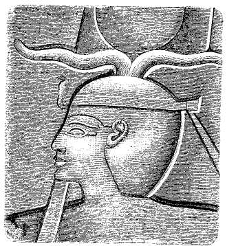 FIGURE RECORDING THE CONQUEST OF JUDÆA BY SHISHAK.